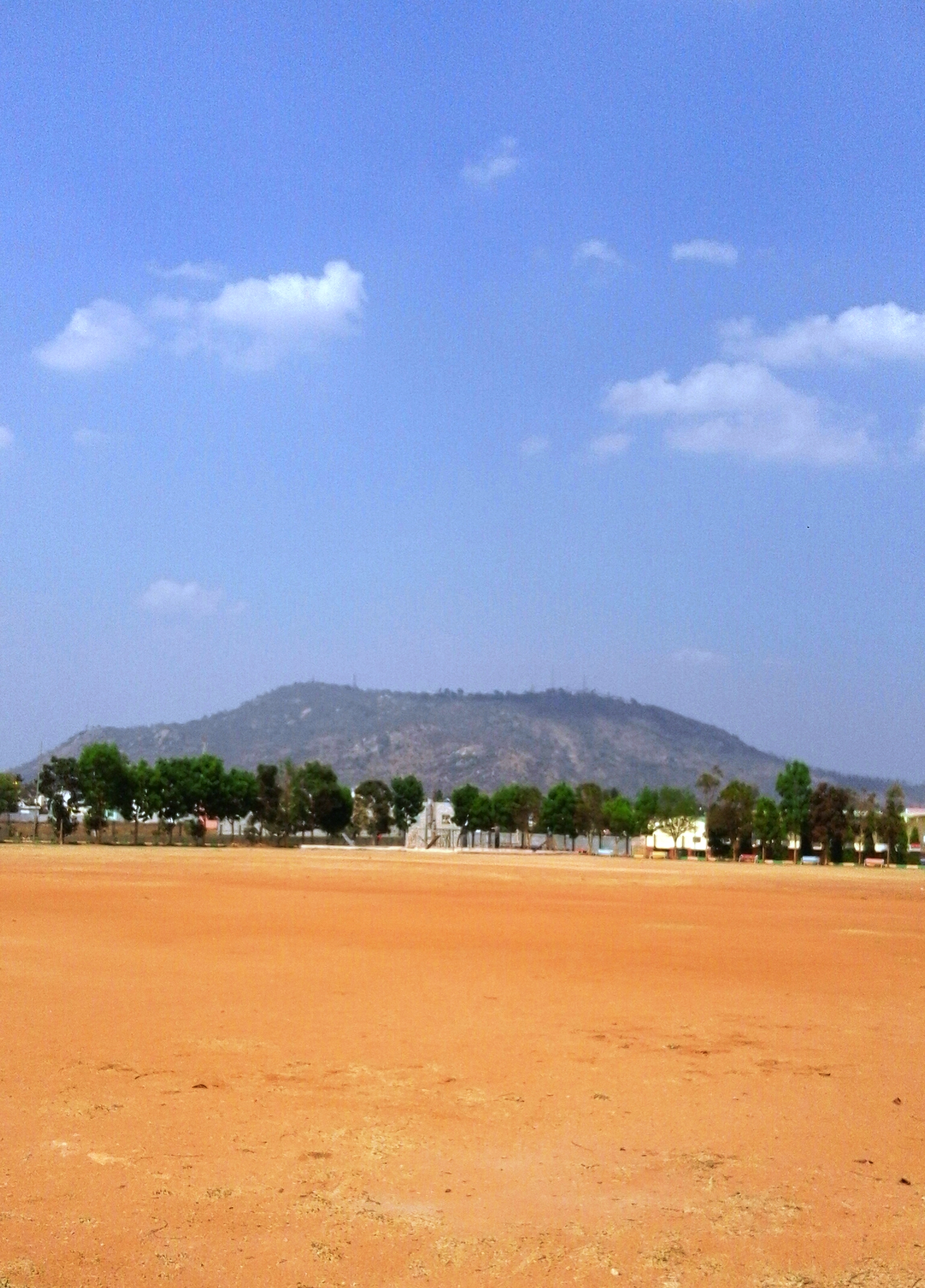 Mysore city, Karnataka province, India